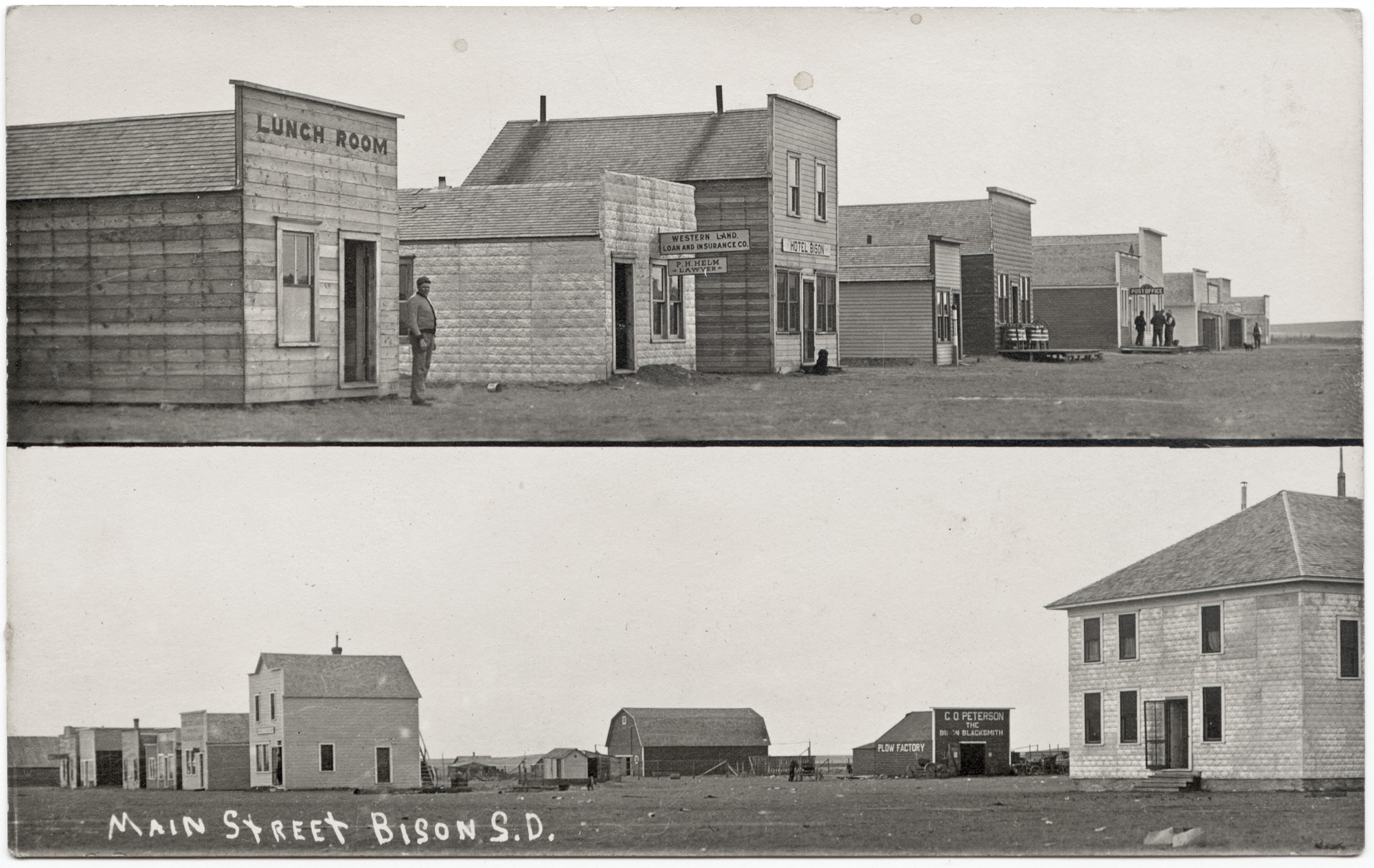 Main Street, Bison, South Dakota, circa 1915. Postcard view.